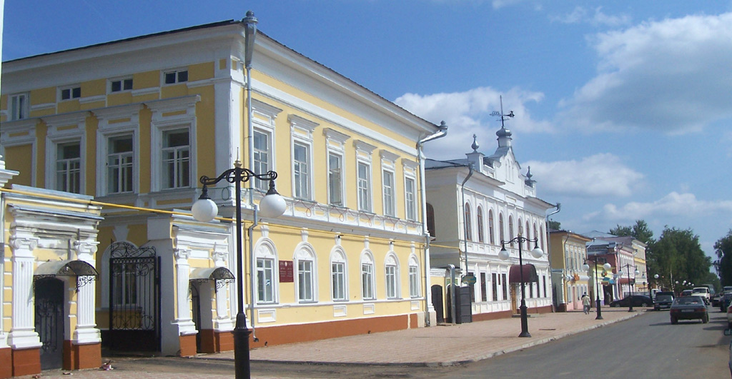 The city of Elabuga, street Kazan (merchant Elabuga)